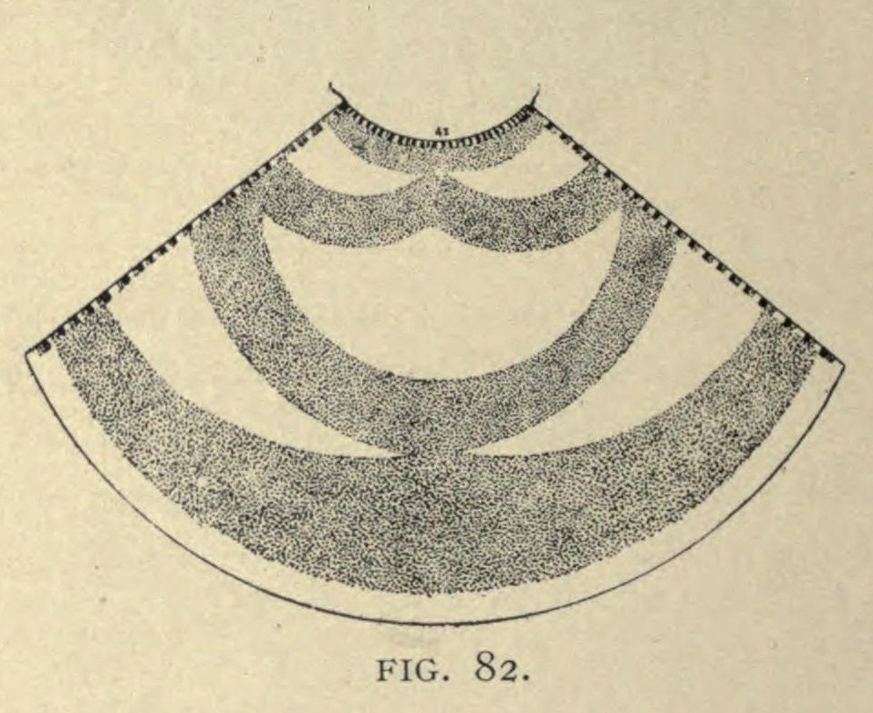 Aulick Cloak, Memoirs Bishop Museum, Vol. I, Fig. 82. Cloak of ʻōʻō and ʻiʻiwi. Given to Commander J. H. Aulick, US Navy, by Kamehameha III in 1841. Cervical border (23 inches) of black and yellow ʻōʻō; front edges of red, black and yellow. Length 48 inches; base 138 inches. United States National Museum, Washington, 79180. Fig. 82.